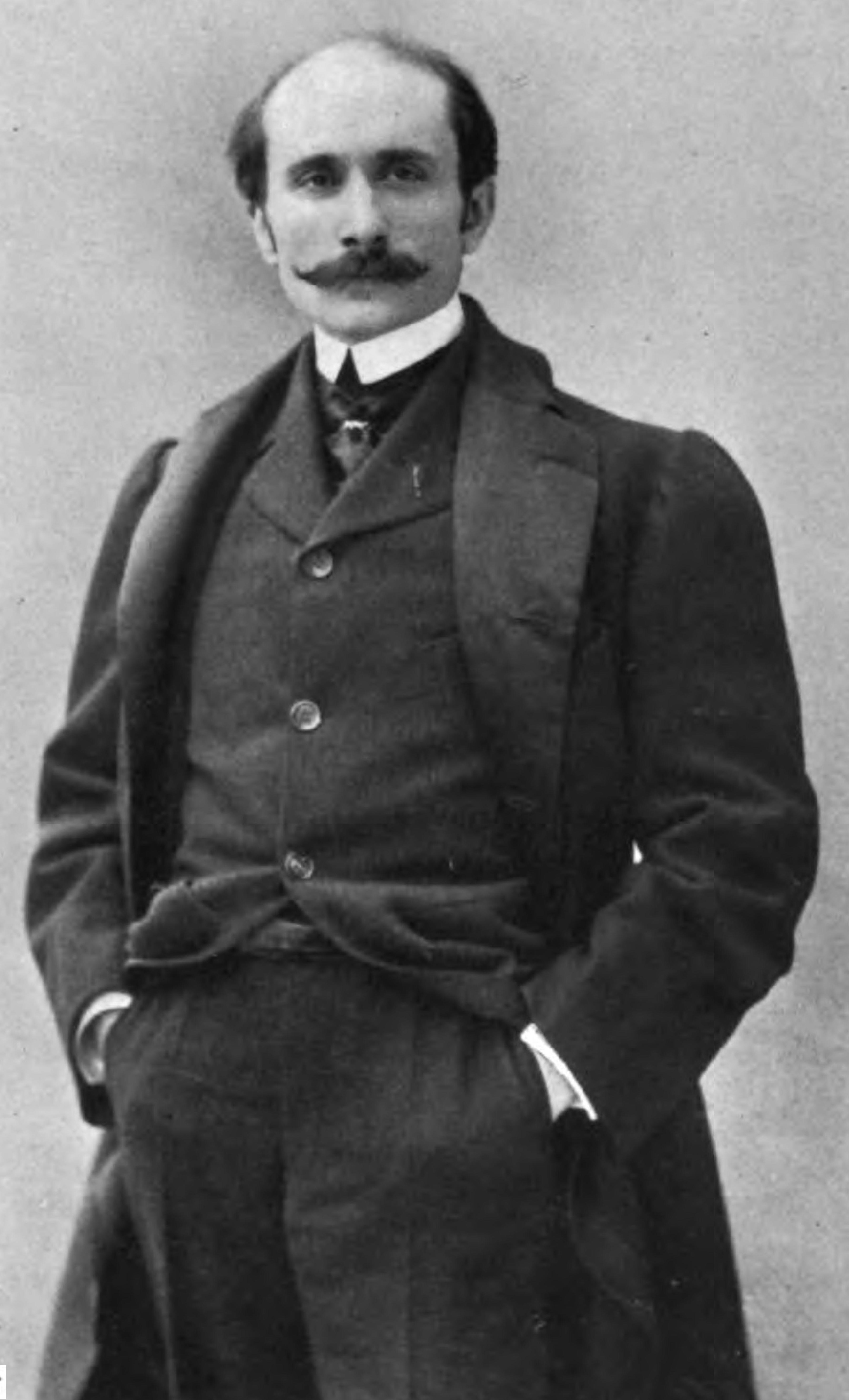 Edmond Eugène Alexis Rostand (1 April 1868 – 2 December 1918) was a French poet and dramatist.